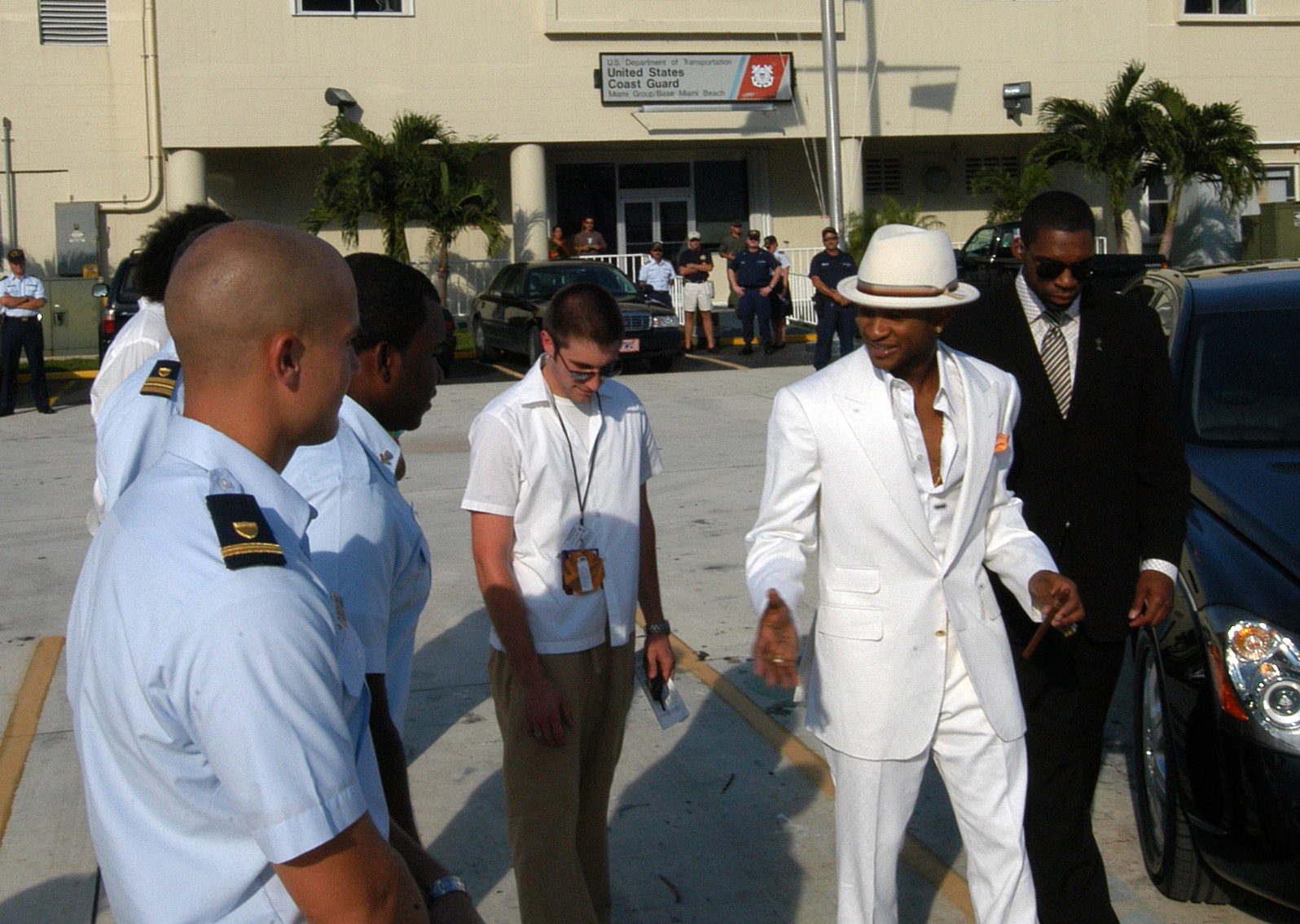 MIAMI (Aug. 29, 2004) -- MTV 2004 Video Music Awards performer Usher poses for a picture at ISC Miami. USCG photo by PA2 Anastasia Burns.